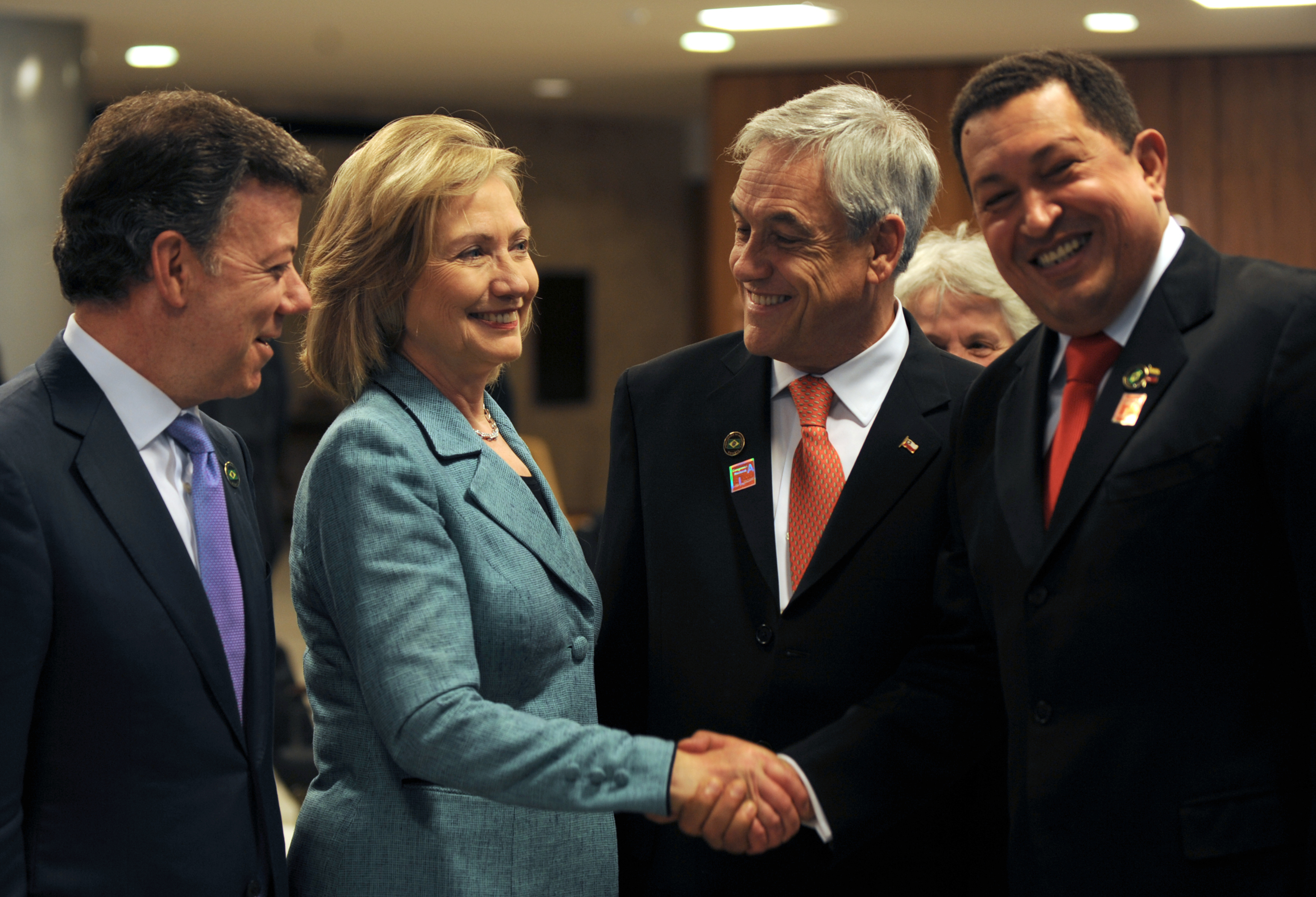 The President of Venezuela Hugo Chavez Salute State's Secretary Clinton, at his side the presidents of Colombia Juan Manuel Santos and of Chile Sebastián Piñera.